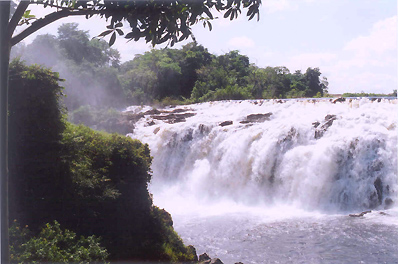 Llovizna Falls, Venezuela Photo' by Wikityke